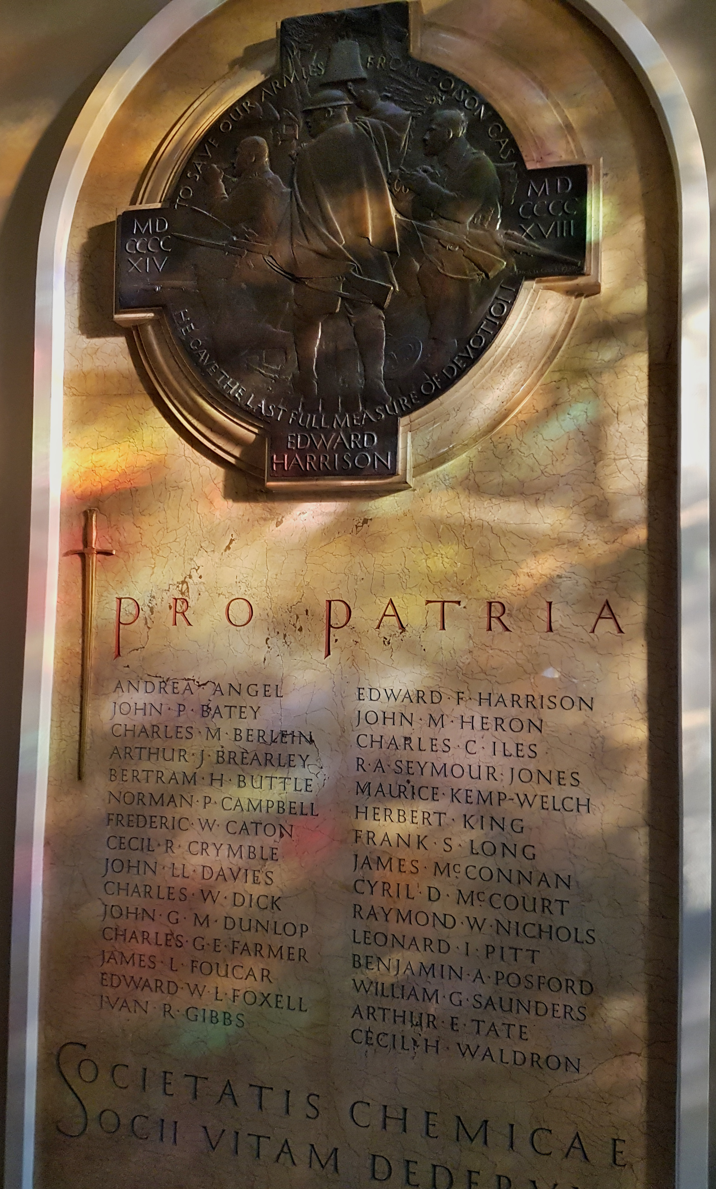 Memorial honouring Edward Harrison, creator of the box respirator, and other chemists killed during the first world war. Dappled light is from the Lawrence Lee stained glass windows.